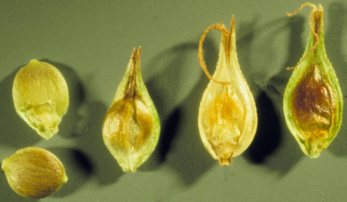 The achenes of this Carex species are lens-shaped (lenticular) and the perigynia is relative flat with with more-or-less winged margins that are with minute serrations (serrulated). The two style branches that are protruding from the perigynia to the far right are indicative of a lenticular achene inside that perigynia.